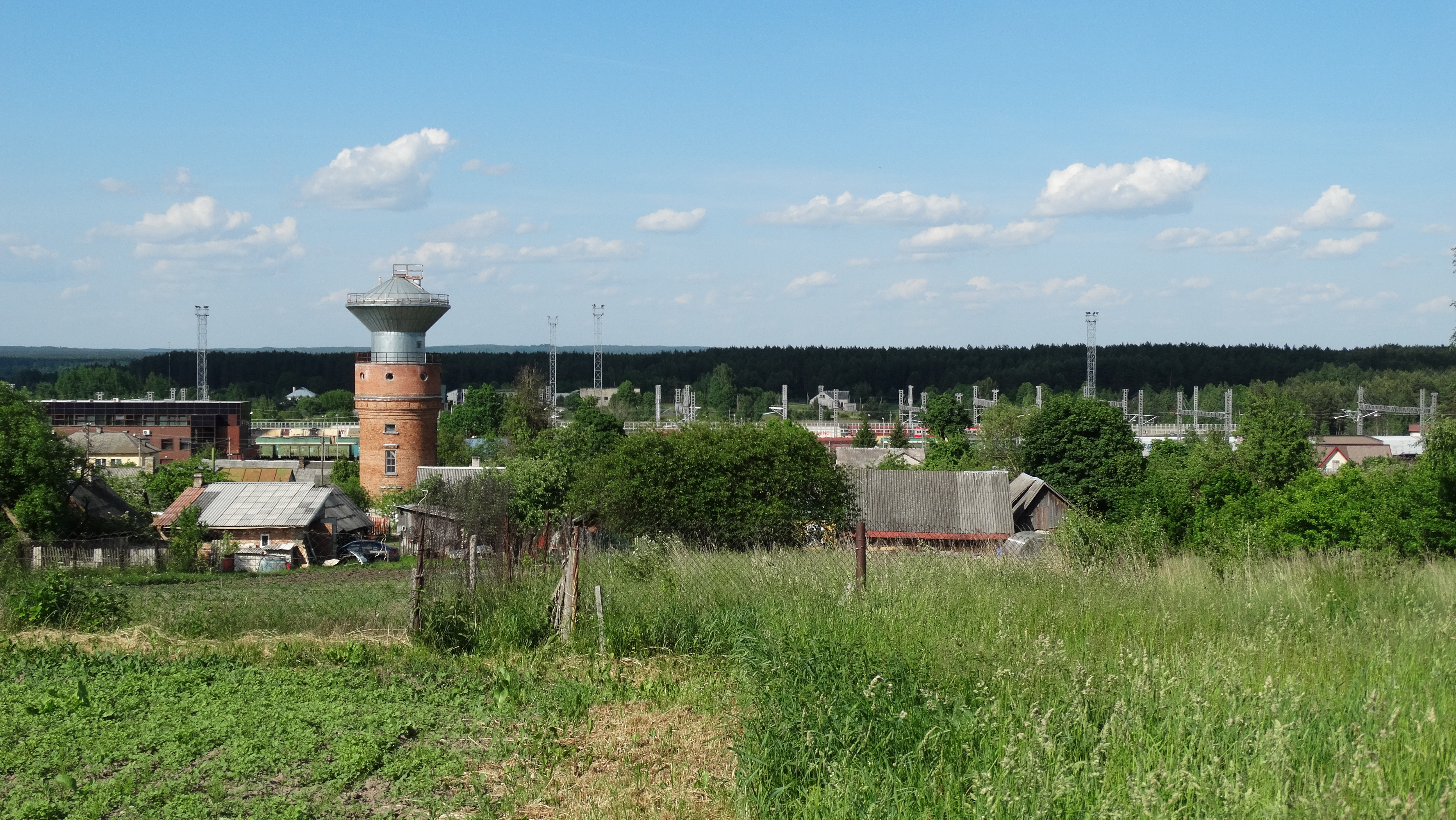 Kalveliai, wiev to railway station, Vilnius District, Lithuania